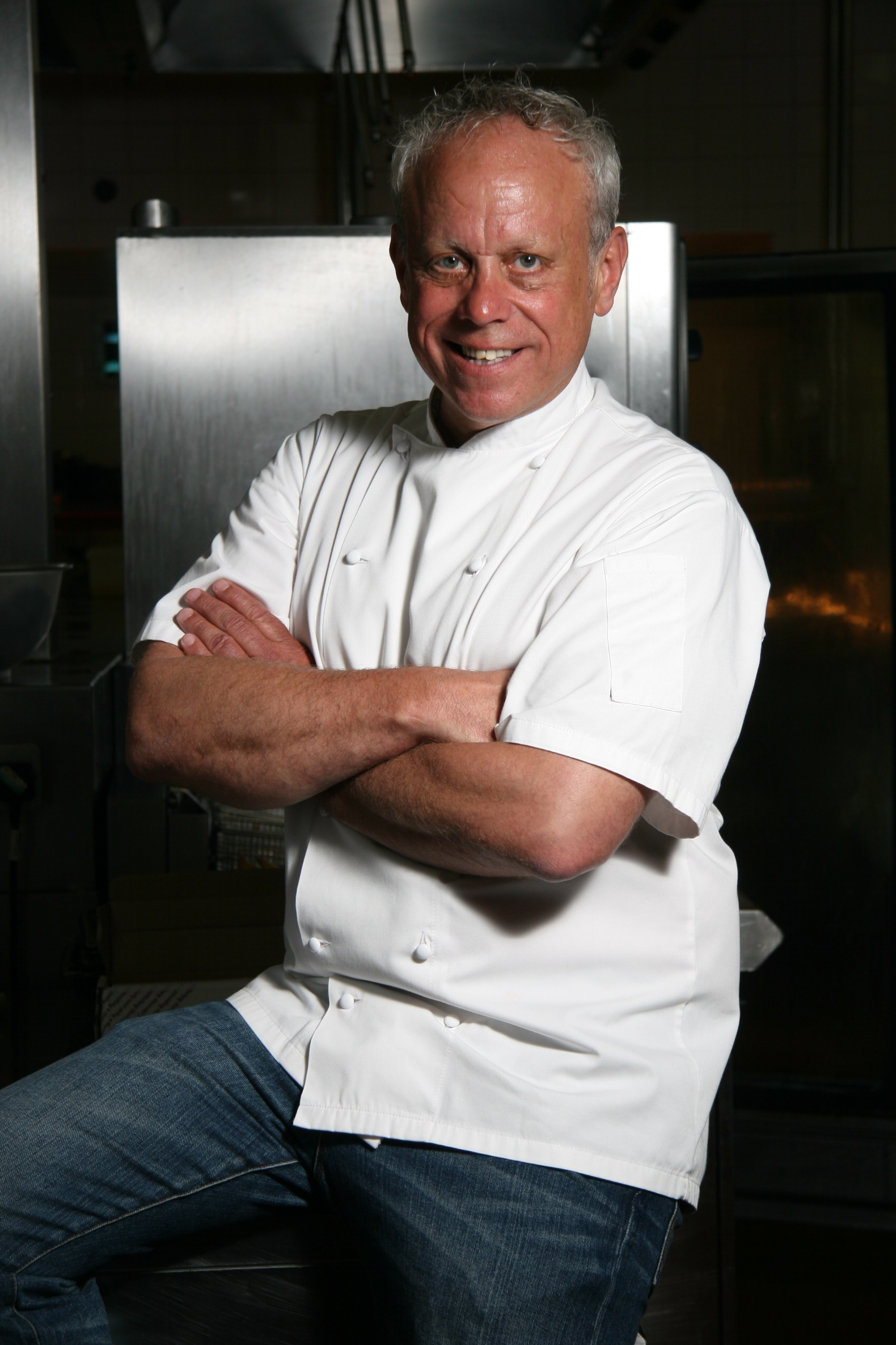 JBR official website photo